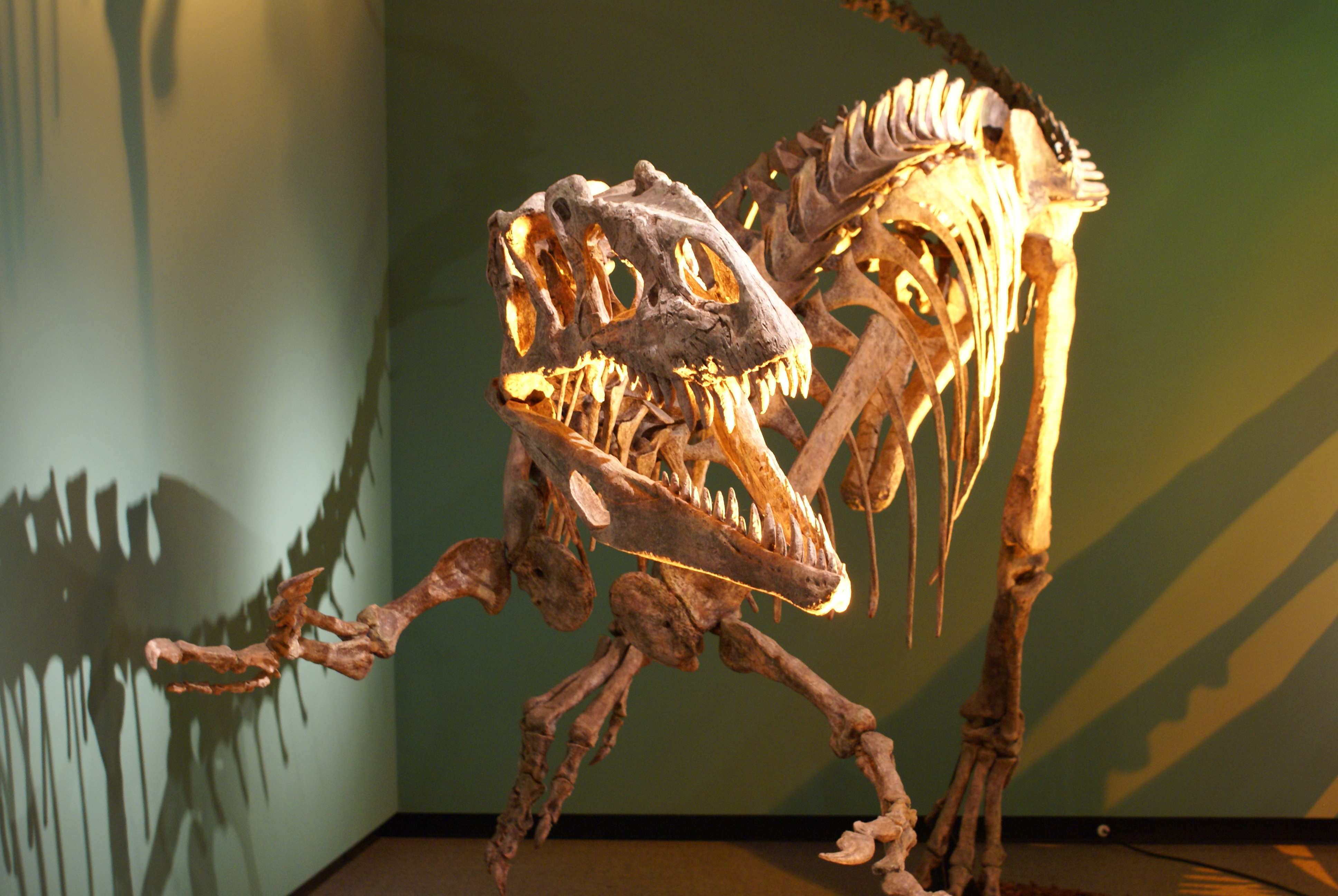 Fastest large predator that ever lived Age: 90 million years old Height: 8 feet Length: 25 feet Origin: Morocco